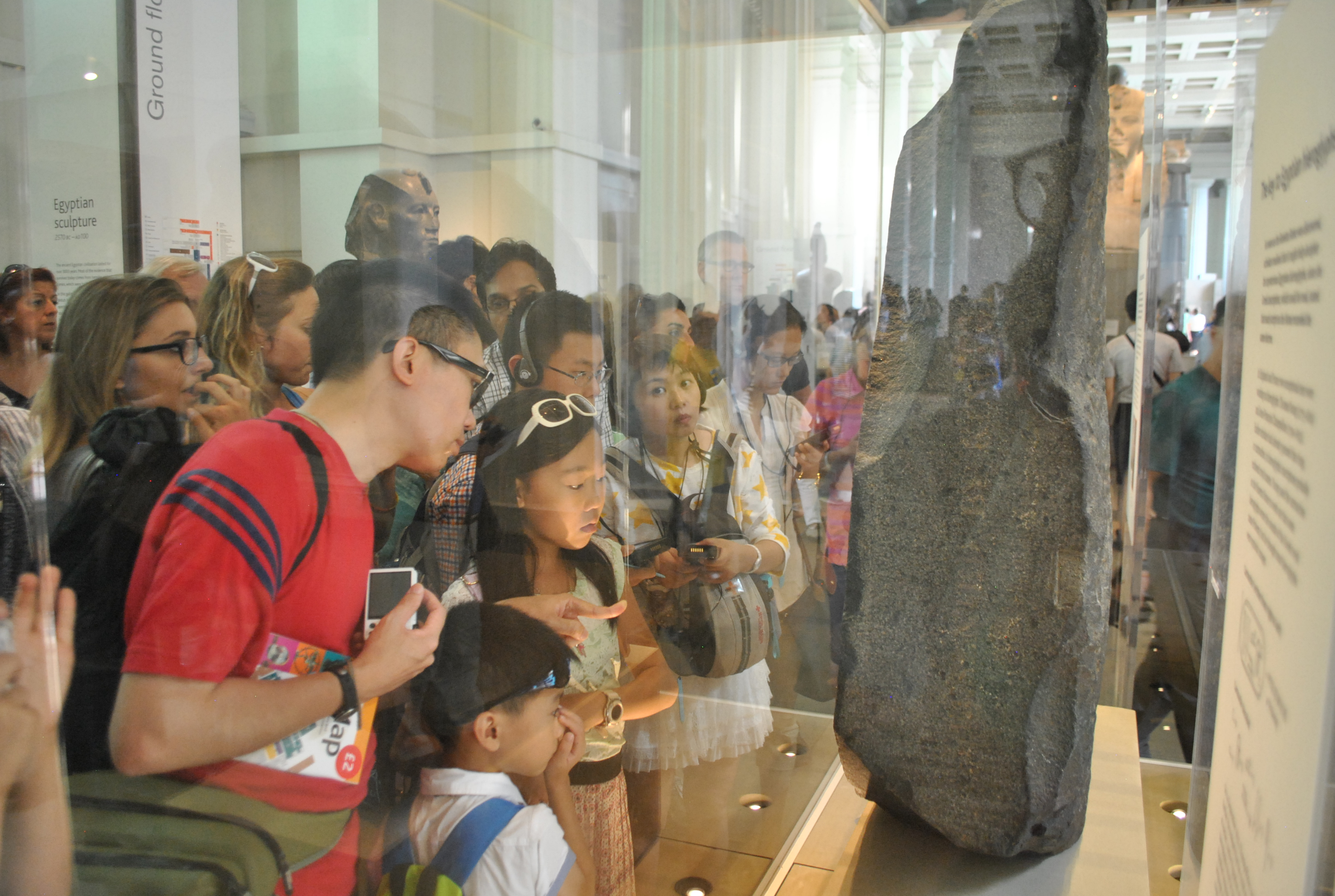 Tourist watching Rosetta Stone at British Museum. One of the most crowded parts of the museum. London. Keywords: tourist,Rosetta,British,Visit,Must